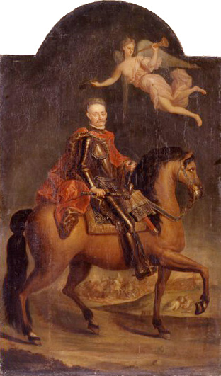 Portrait of Jan Kazimierz Sapieha the Younger (1637–1720)